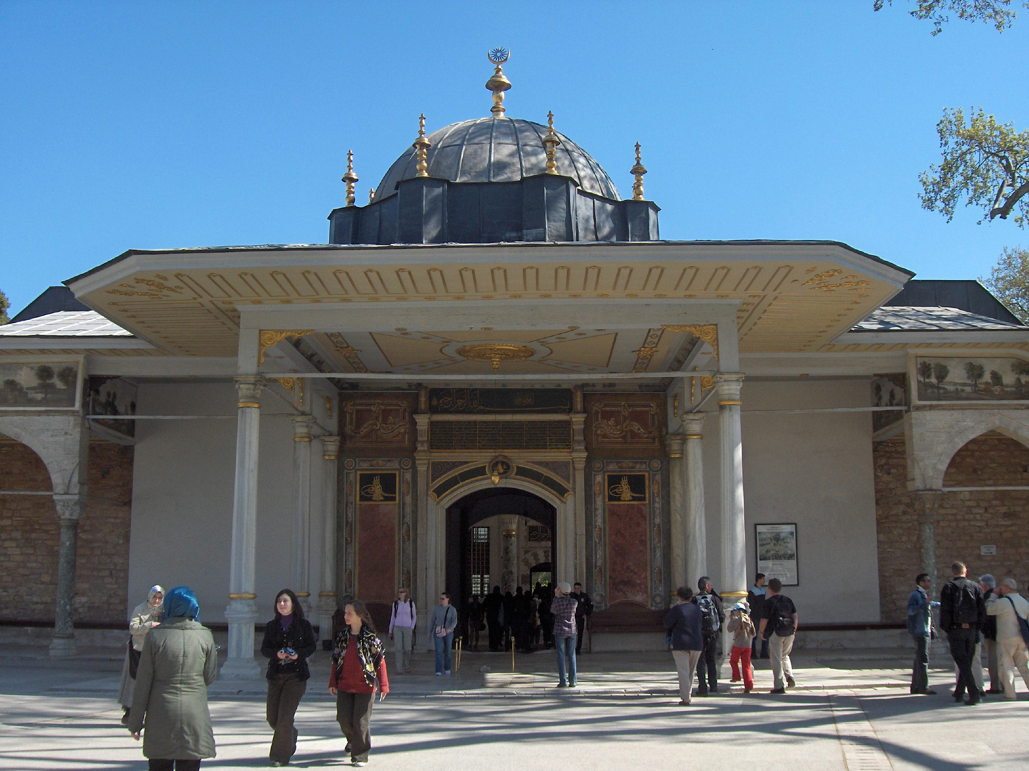 Gate of Felicity (bab-üs Saadet) bewteen the second and third court; Topkapı Palace, Istanbul, Turkey